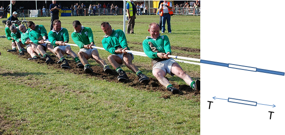 The figure combines a photo of a tug of war team with a drawn illustration of rope elements and a free body diagram of one element. For tension_(physics)